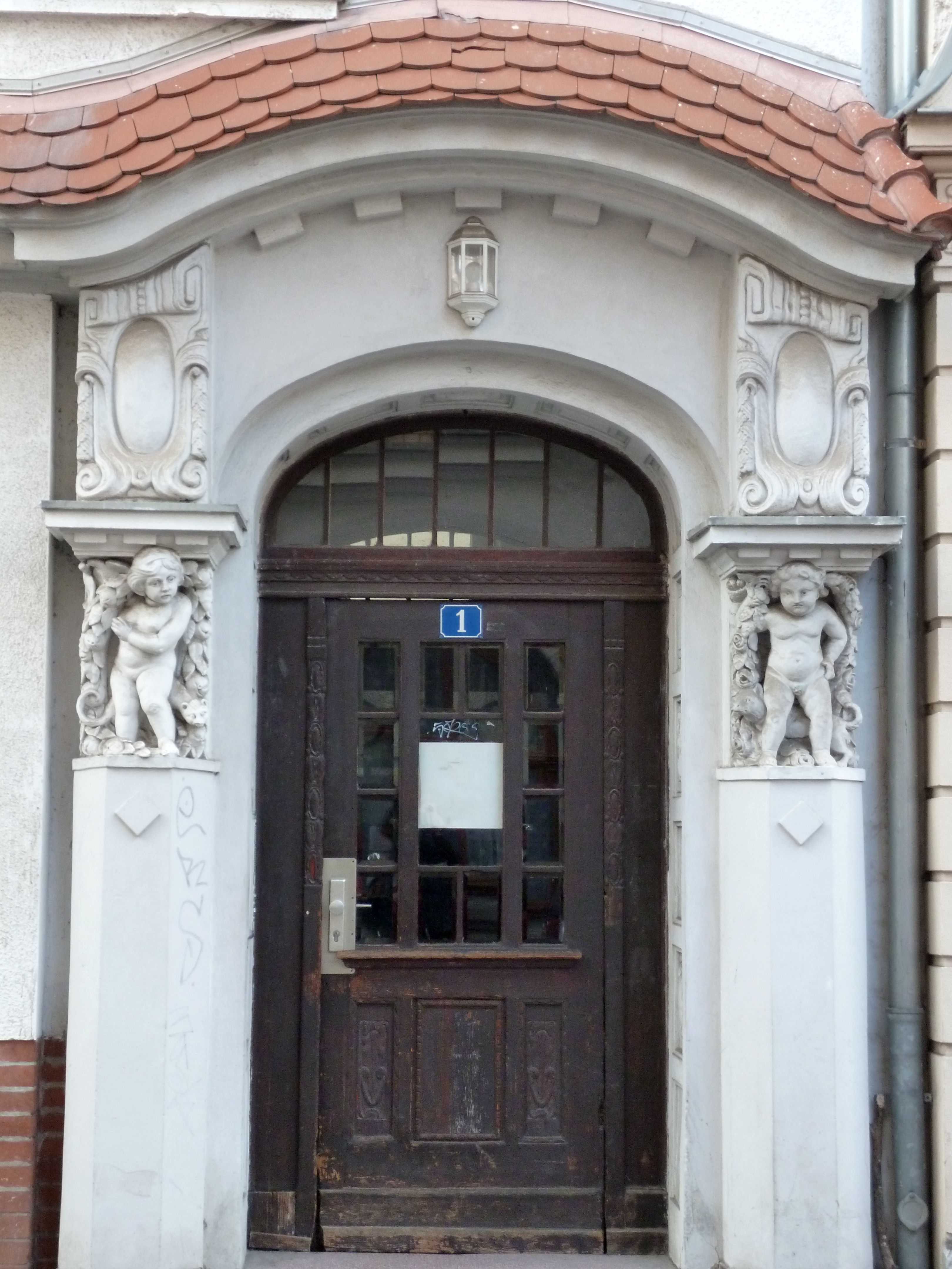 Portal of the house No. 1 Graefestrasse in Halle (Saale)